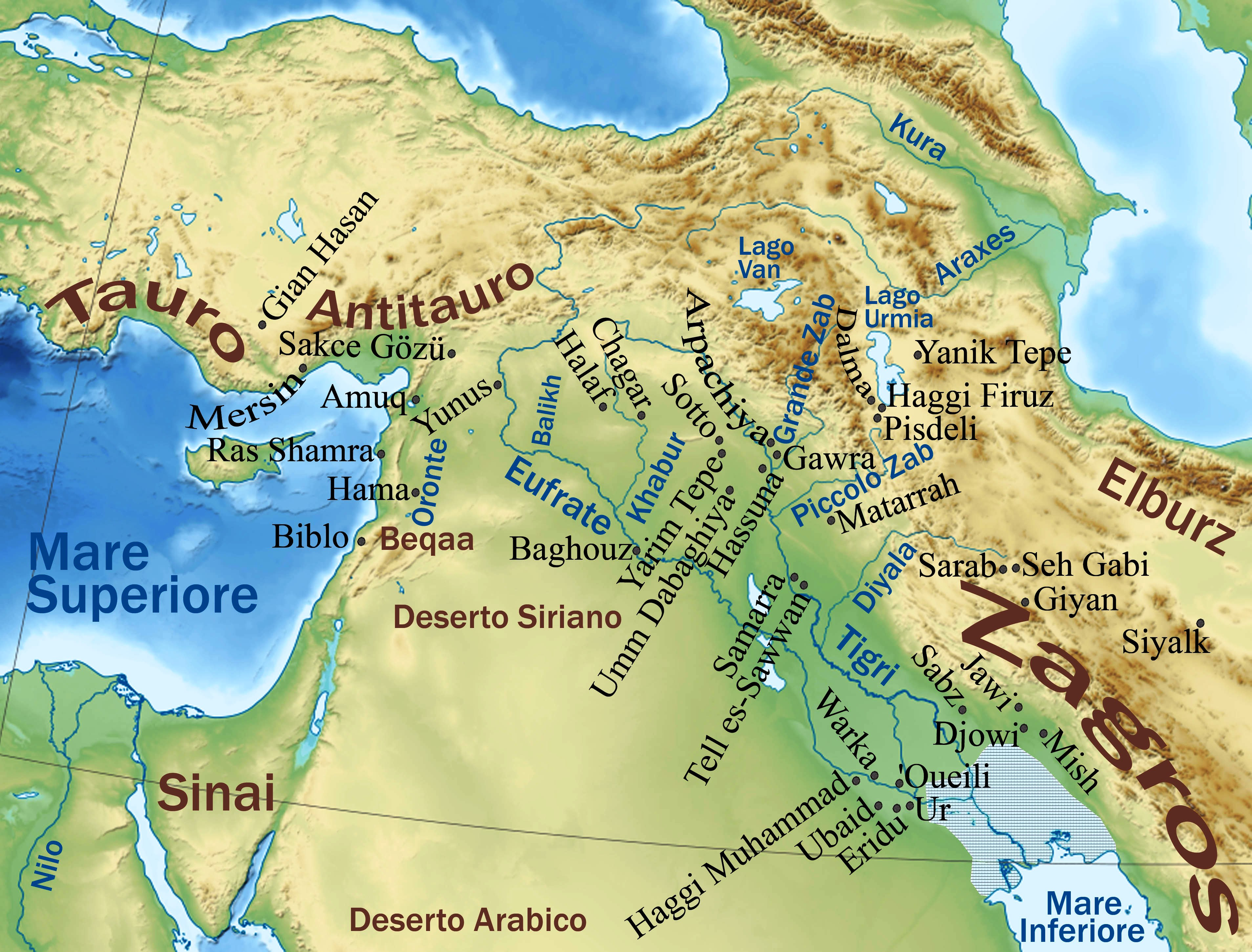 Blank physical map of the Middle East -- Middle East during the Chalcolithic age